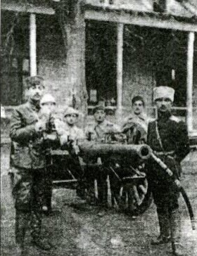 Azerbaijani soldiers from Salimov's detachment, that participated in the Lenkoran operation, 1919.